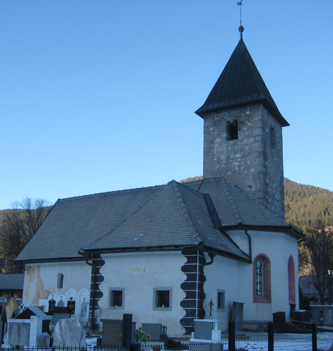 St. Thomas schurch, Rateče, Slovenia